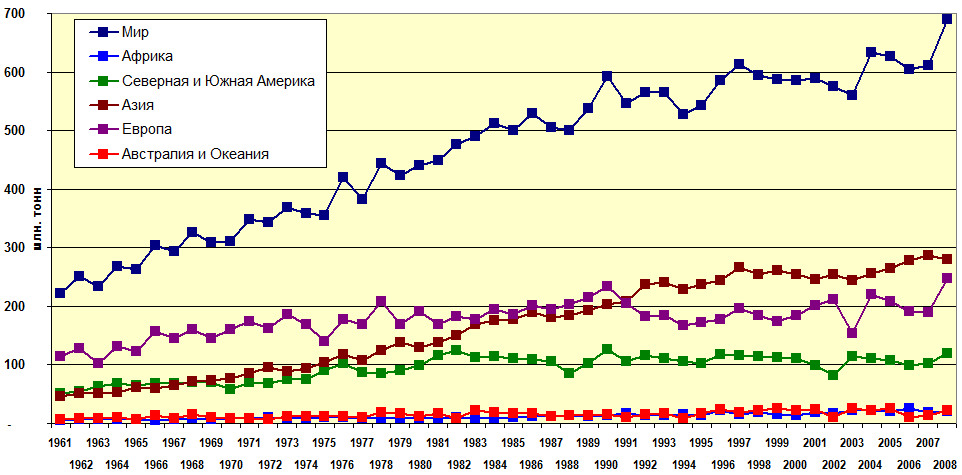 World wheat production (mln tonnes)